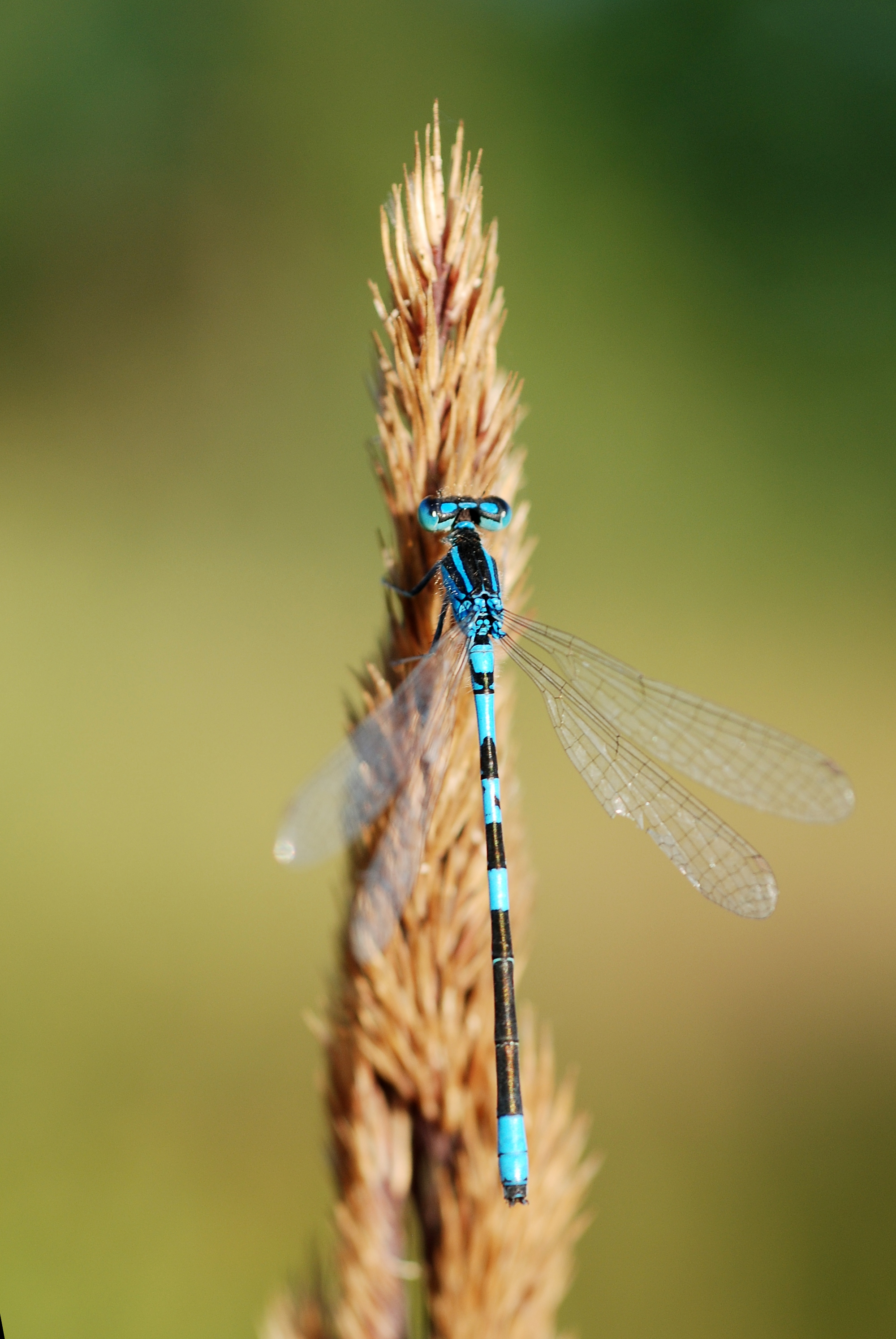 Dainty Damselfly Coenagrion scitulum